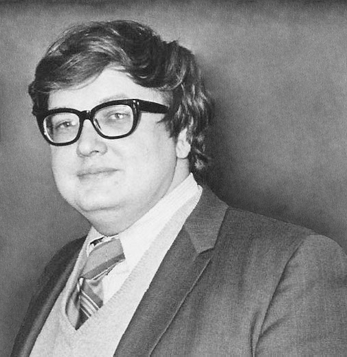 Roger Ebert, american film critic.